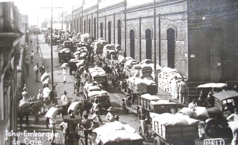 Jaú, 1910